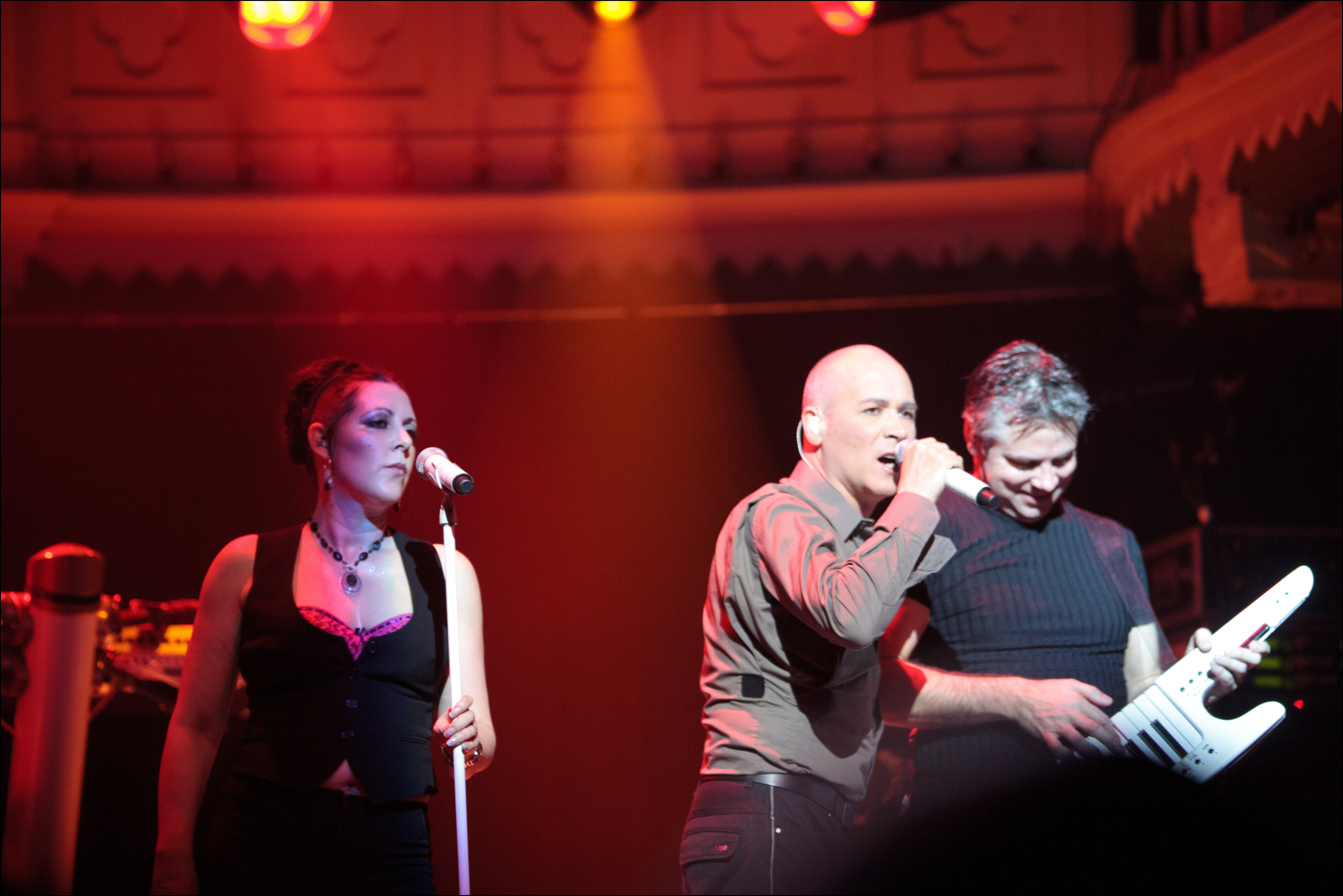 The Human League on stage at Paradiso, Amsterdam, Netherlands - from left to right Joanne Catherall, Phil Oakey, and Neil Sutton.